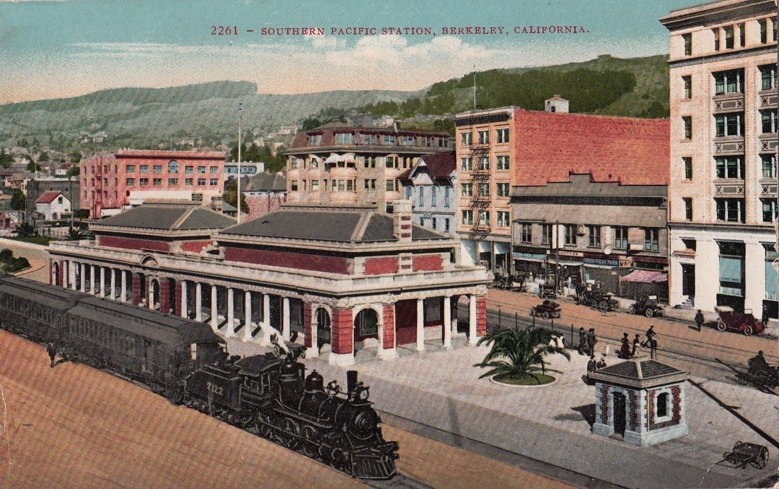 Early divided back postcard of Berkeley station